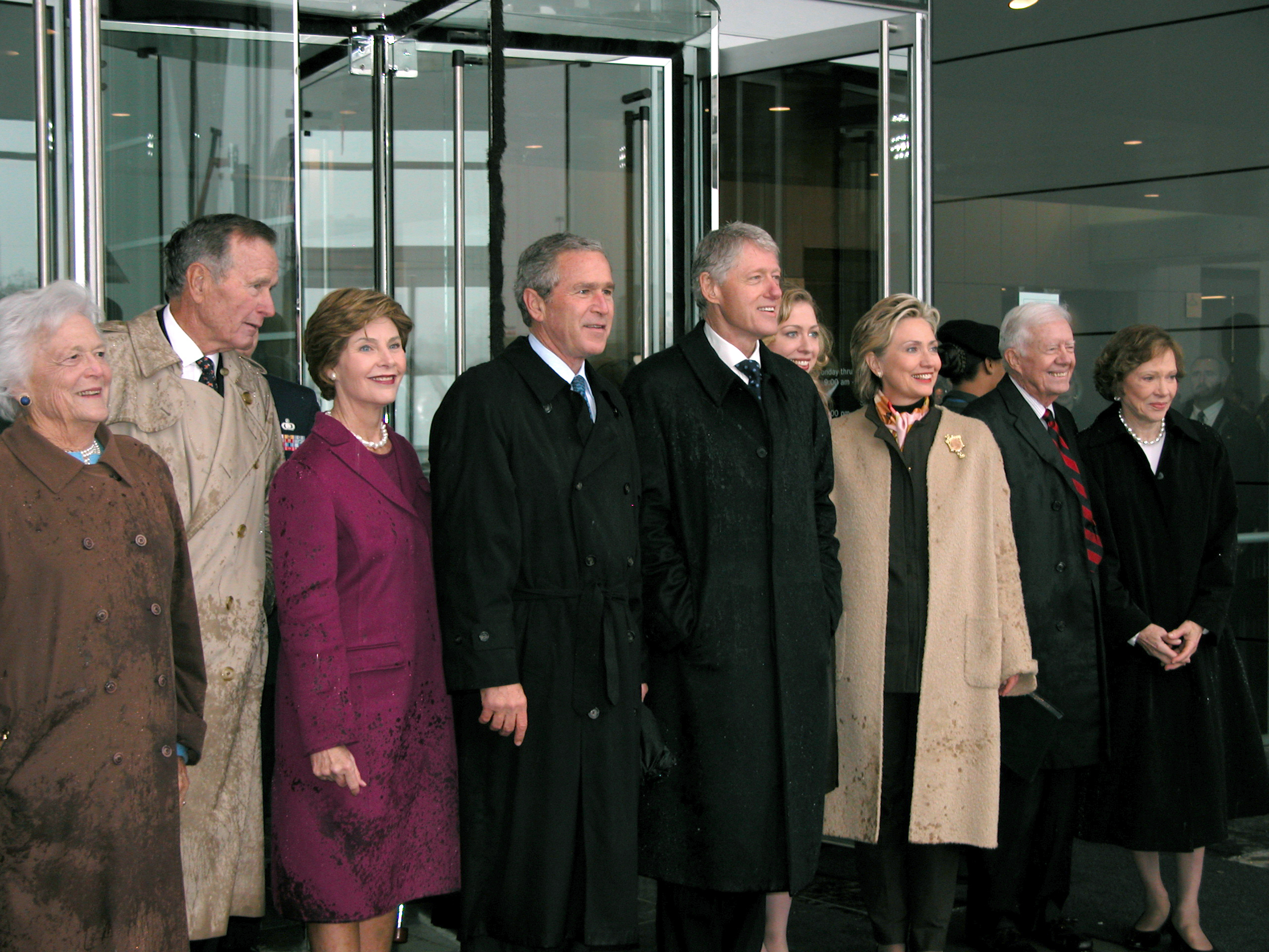 LITTLE ROCK, Ark. -- (From left) Barbara Bush, George H.W. Bush, Laura Bush, President George W. Bush, Bill Clinton, Chelsea Clinton, Hillary Clinton, Jimmy Carter and Rosalynn Carter pose for the media after the William J. Clinton Presidential Library opening ceremonies. (U.S. Air Force photo by Tech. Sgt. Bob Oldham